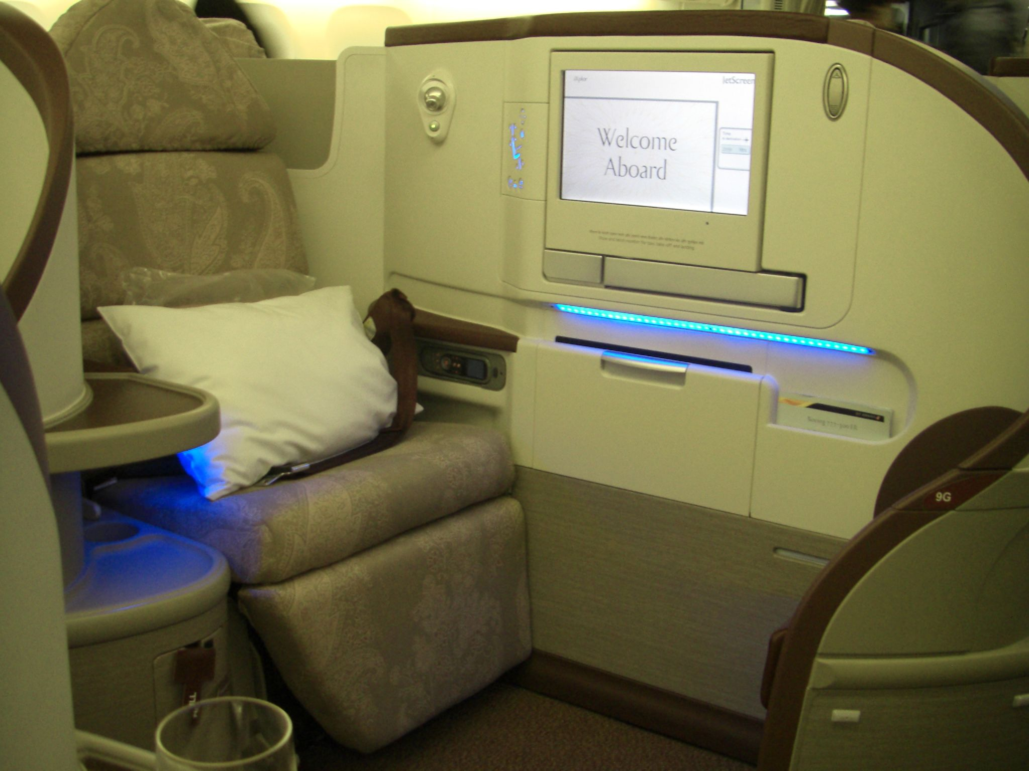 video can be found here : product wise, this is clearly on par with Singapore Air's new business class. Enormous screen, good VOD system, incredible legroom and facilities. Special mention to the food and drinks, i don't like champagne but Dom Perignon 1998 isn't something you can't refuse... In terms of service, it's good, but not outstanding. they still need to "polish" their crew. But overall, the secondbest flight experience i had this year.